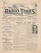 Cover of The Radio Times Magazine, 28 September 1923.